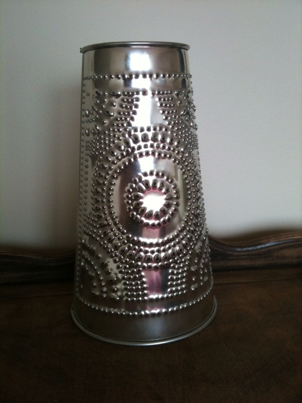 A reproduction barn lantern made of punched tin in North America. Barn lanterns were used in the 19th century to cover candles and lamps when inside a barn to reduce fire hazard.